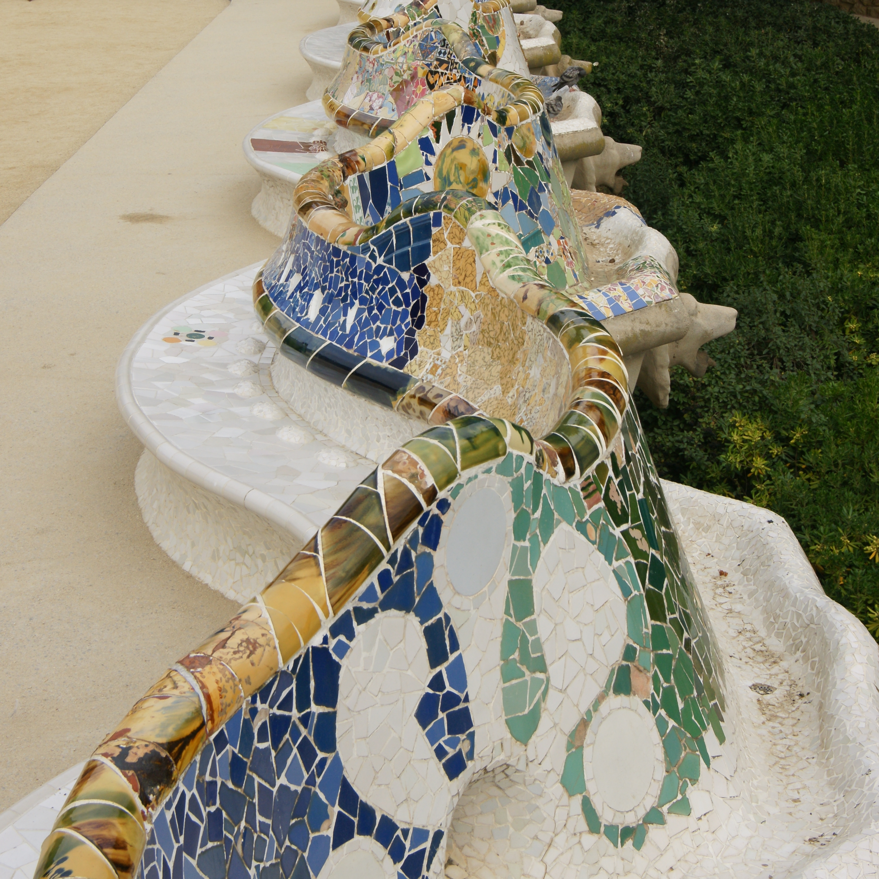 Park Güell is a garden complex with architectural elements situated on the hill of El Carmel in the Gràcia district of Barcelona, Spain. It is part of the UNESCO World Heritage Site "Works of Antoni Gaudí".